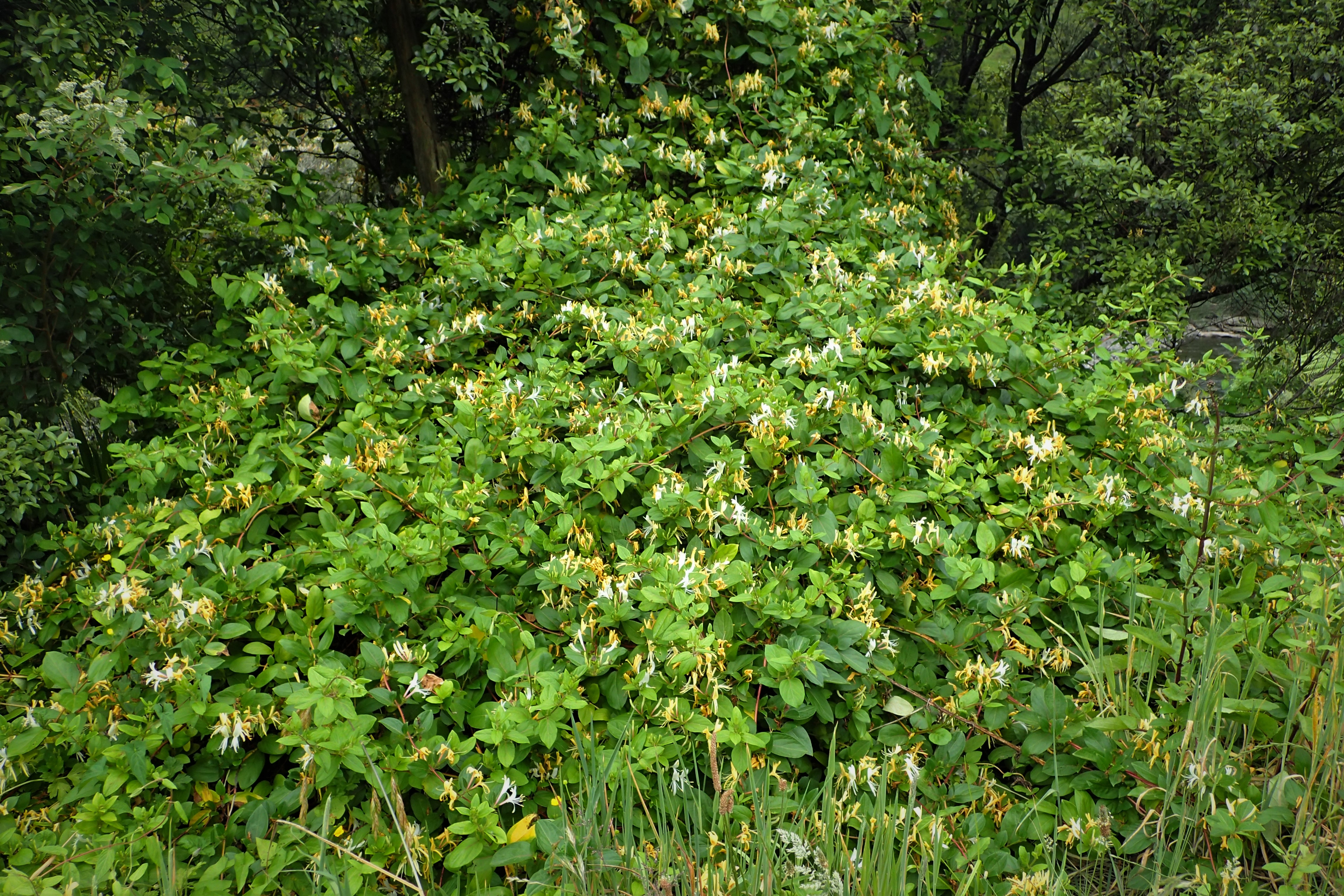 Lonicera japonica in Waioeka Gorge Scenic Reserve (New Zealand)